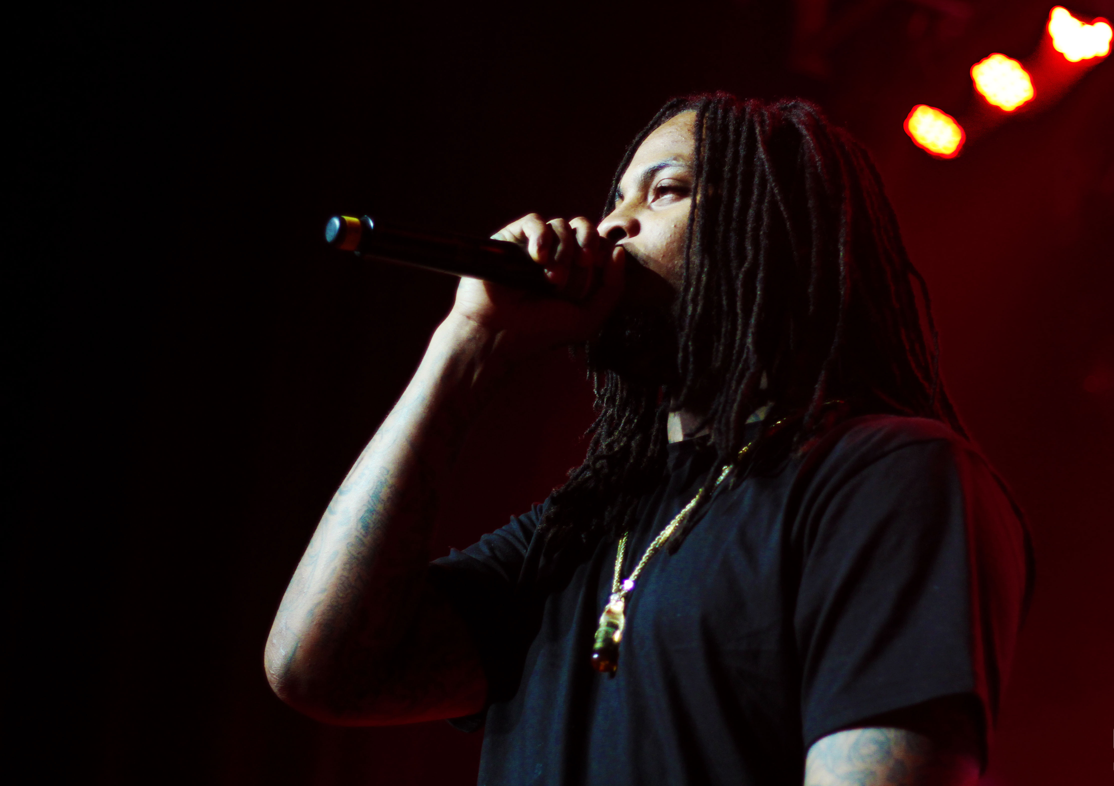 Waka Flocka @ Aug 2 2014 @ London Music Hall Photography Eddy Rissling for The Come Up Show.